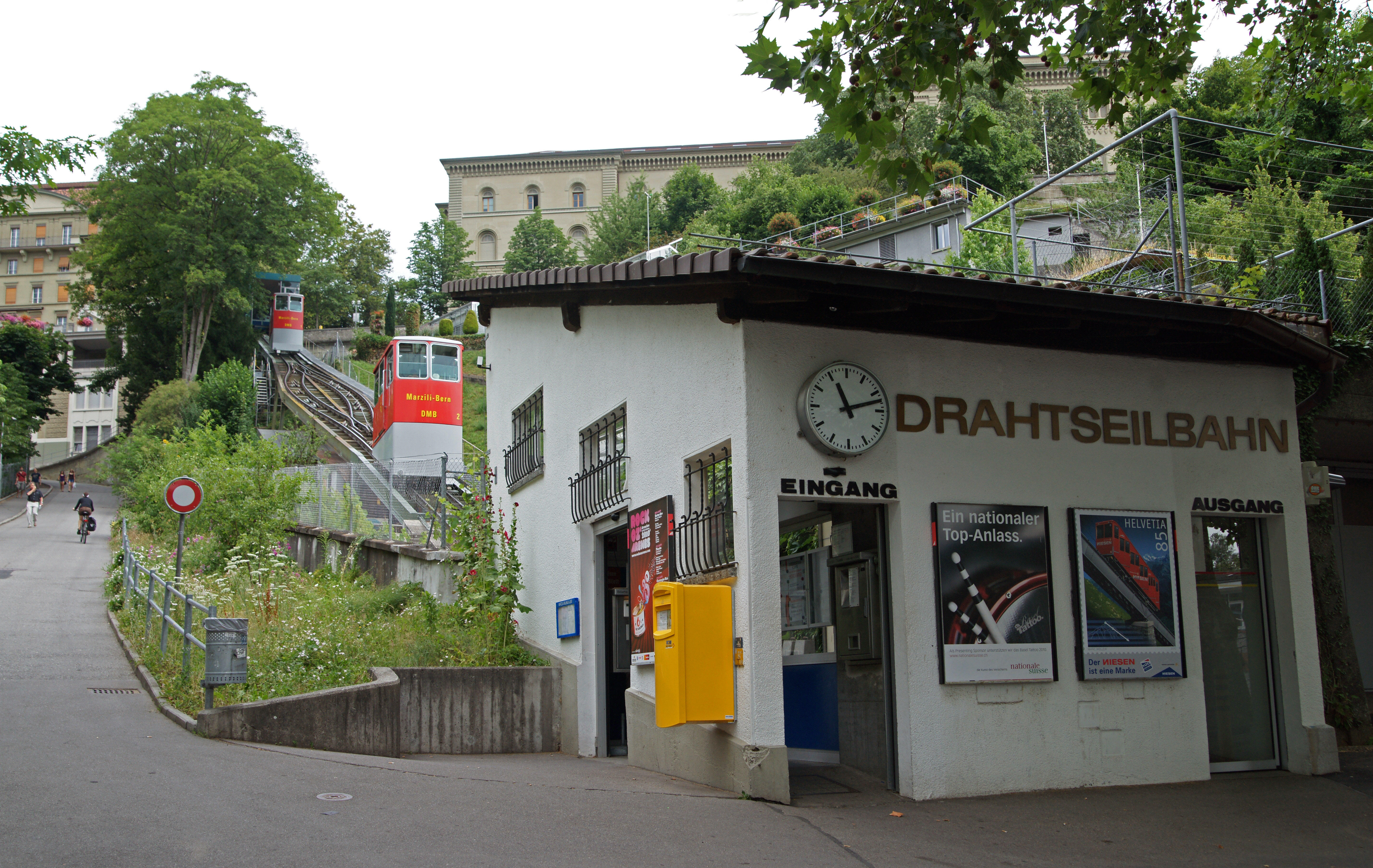 Marzilibahn funicular, Bern, Switzerland; lower station and tracks.